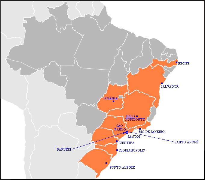 Map of the cities with teams in the Brazilian Fooball (Soccer) Championship.